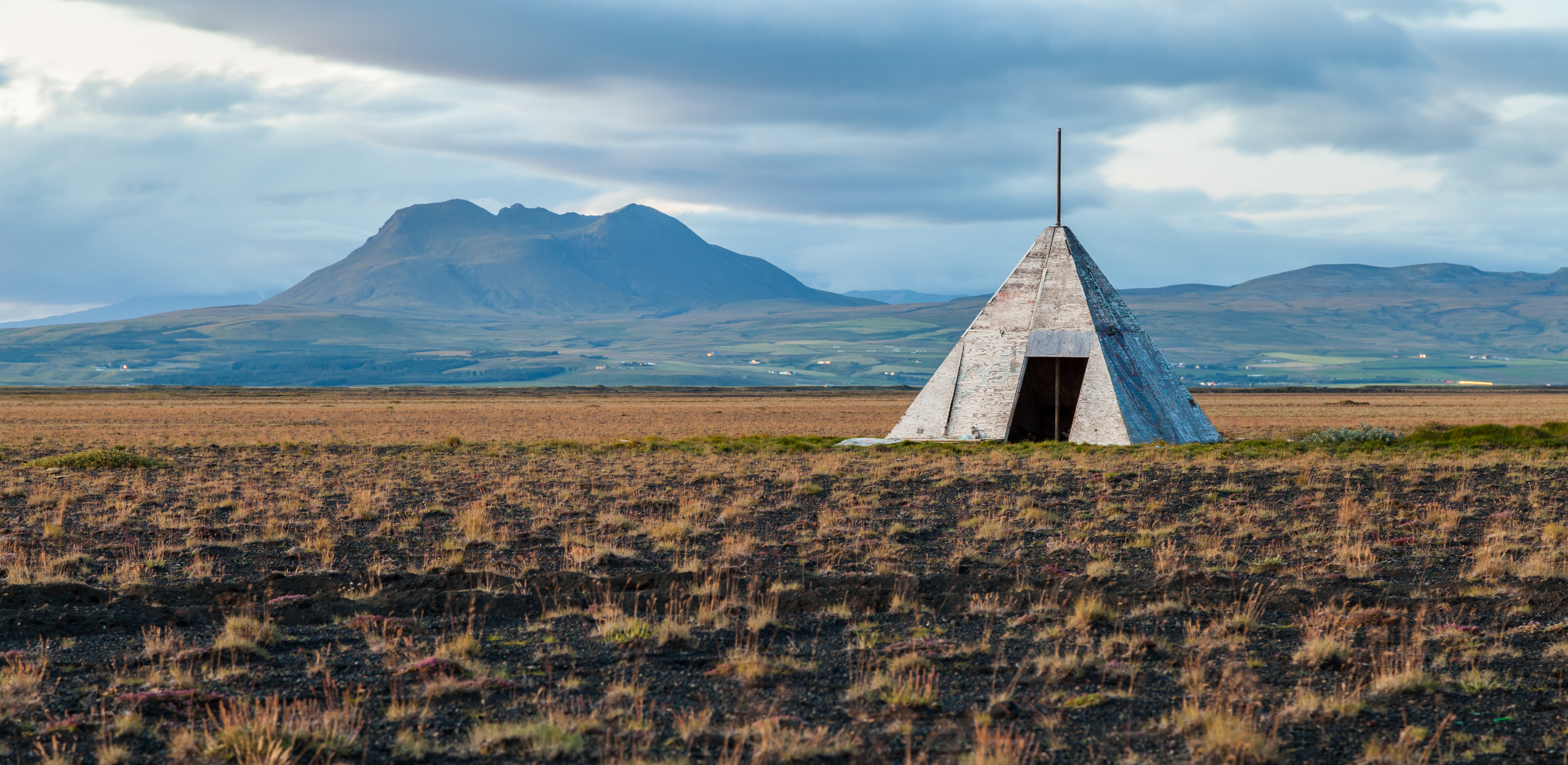 Farm building near Hvolsvöllur, Suðurland, Iceland